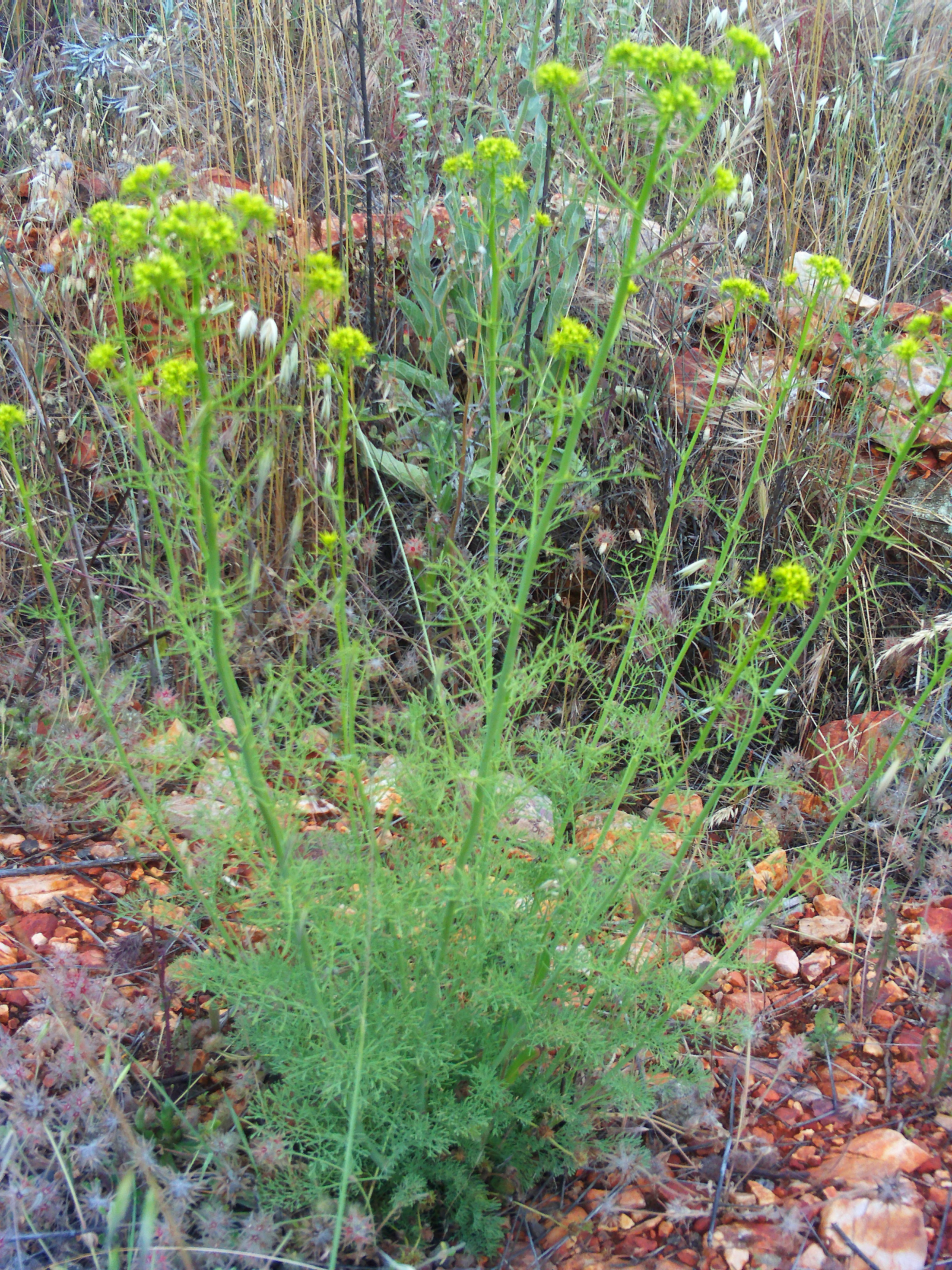 Ruta montana habit, Campo de Calatrava, Spain